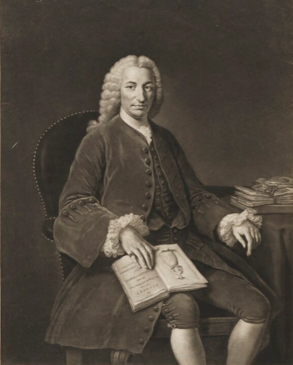 Portrait of Robert Dingley (c.1711–1781), English merchant, banker and philanthropist.